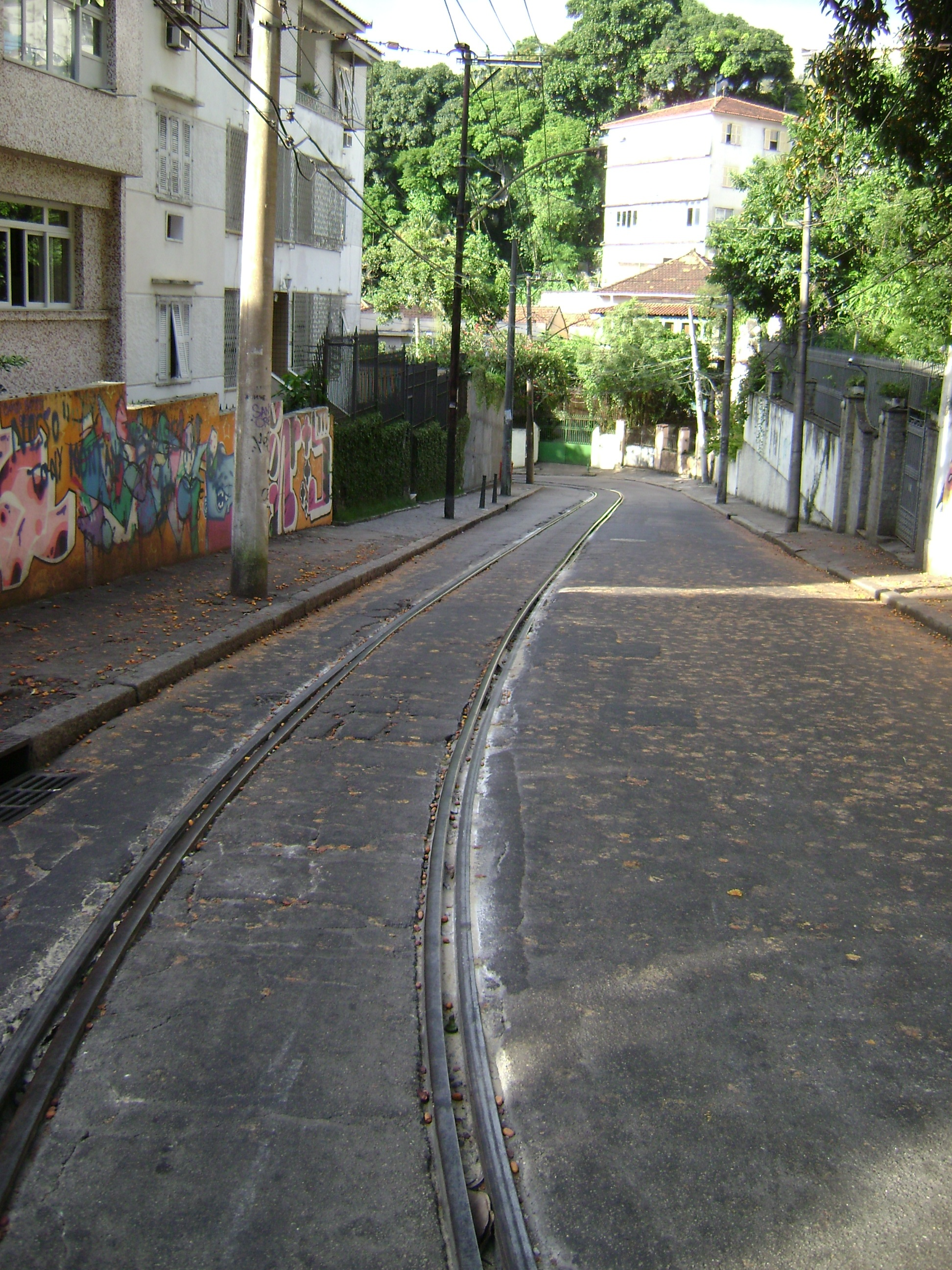 A street in Rio de Janeiro's Santa Teresa neighbourhood, with track used by the Santa Teresa Tramway's Paula Matos line (which has bi-directional single track on some sections, such as here). This view is looking north on Rua Paschoal Carlos Magno. The Paula Matos line ceased operation in August 2011, but another tram line in Santa Teresa continues to operate.